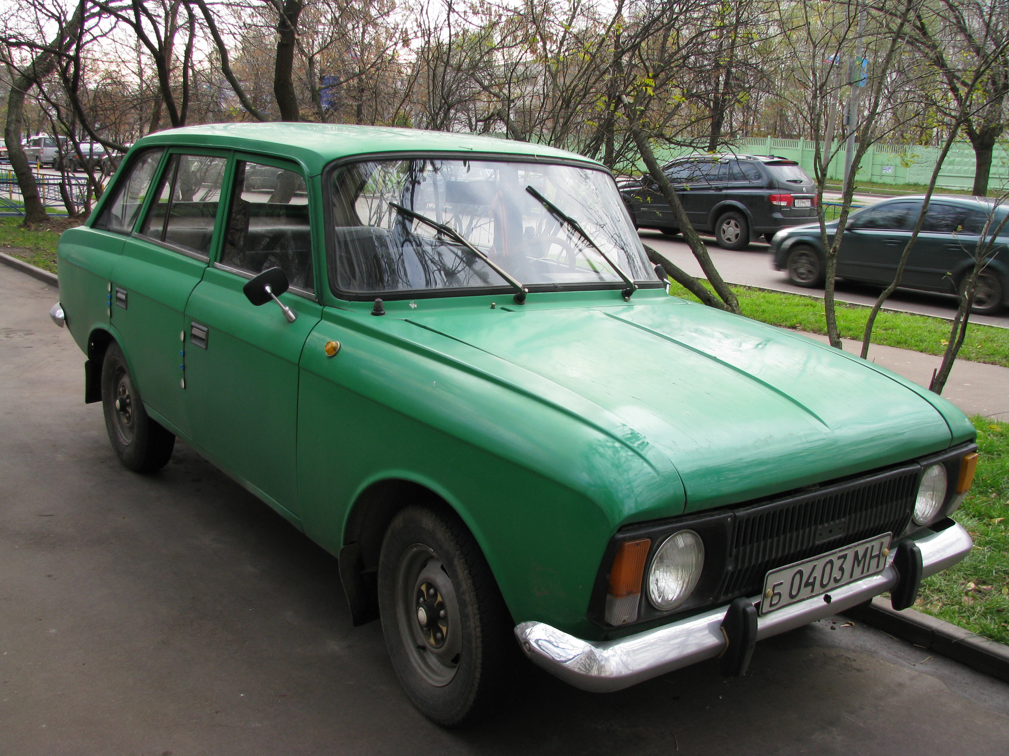 IZh-2125 in Moscow